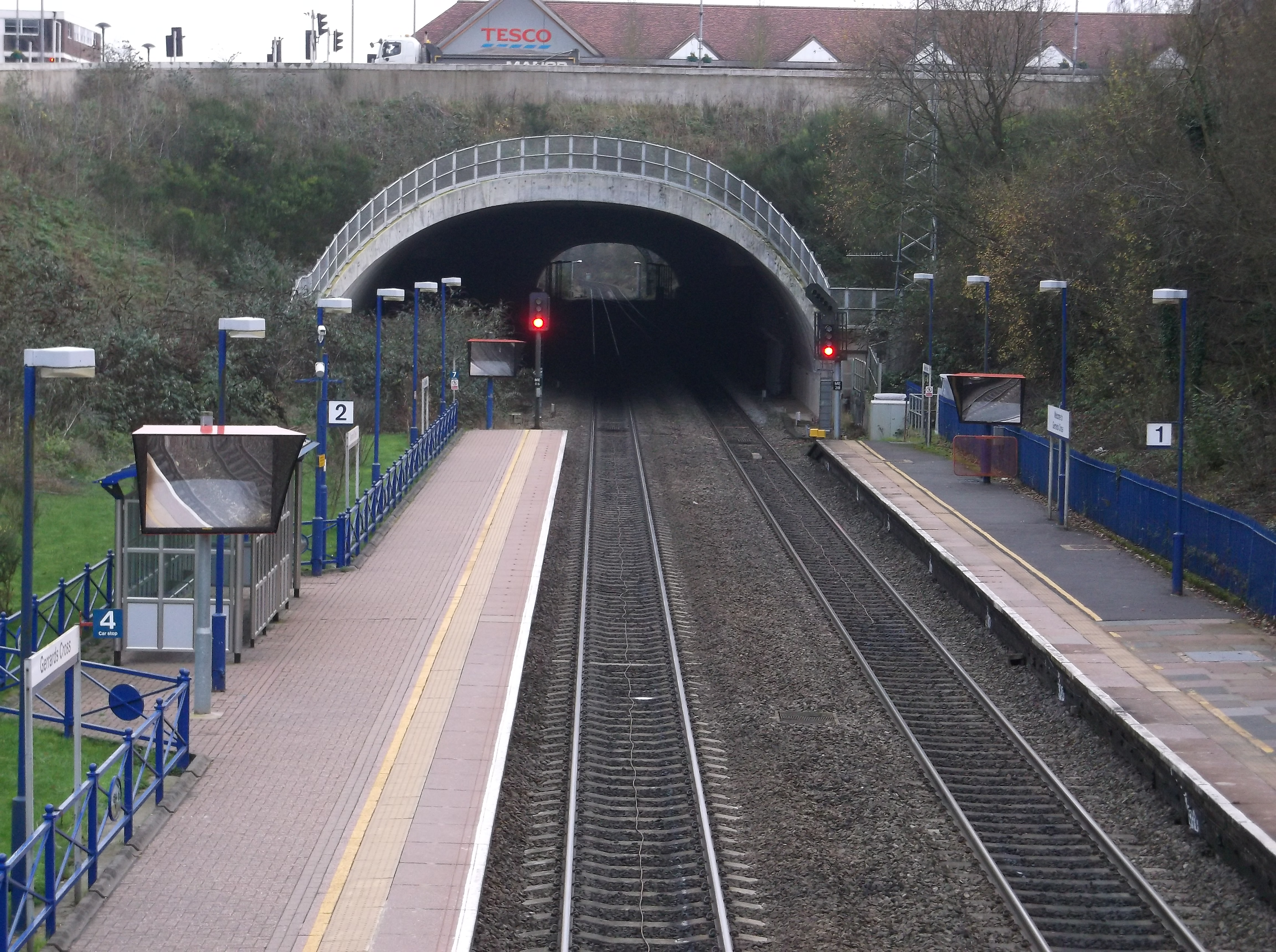 View south down the Chiltern Main Line from the footbridge at Gerrards Cross station, including platforms and tunnel